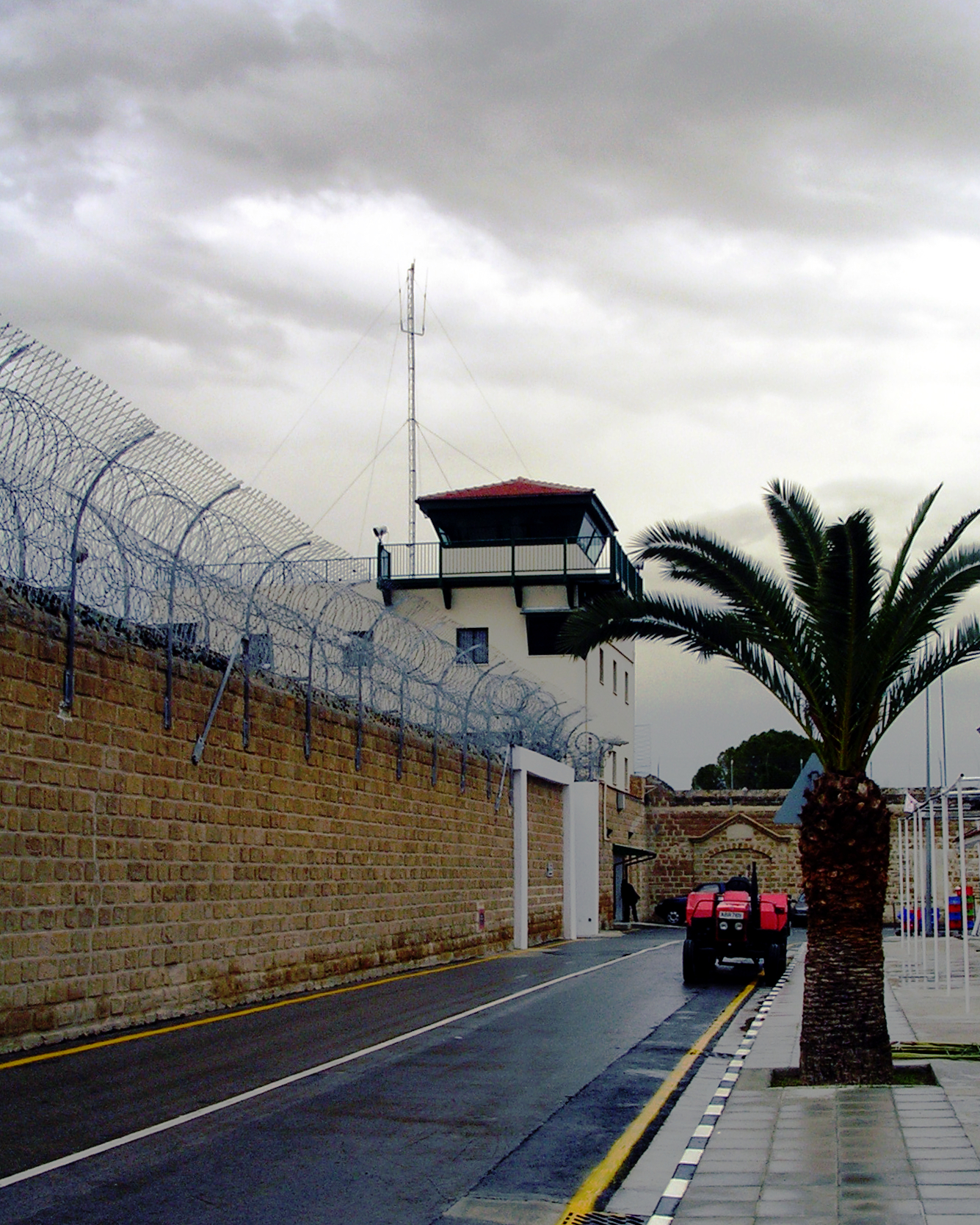 View of the Central prison of Nicosia. Wall with fencing and concertina wire, surrounding the correctional facility, and guard post.